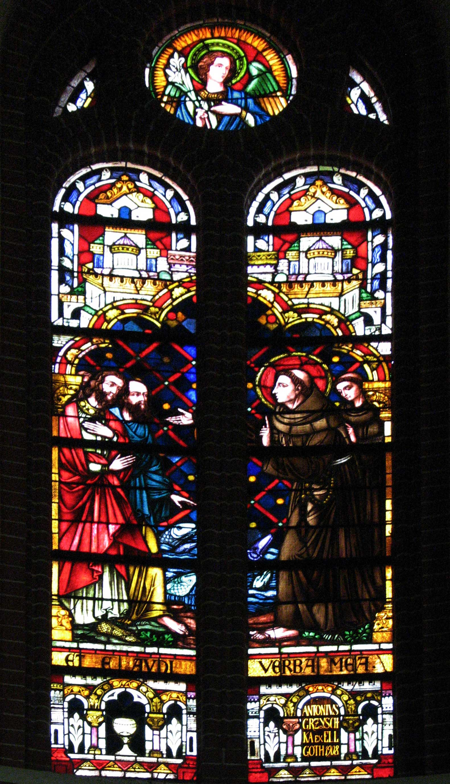 Stained glass window in the transept of the Basilica of St. Louis King in Katowice Poland, XX century - Saint Anthony of Padua